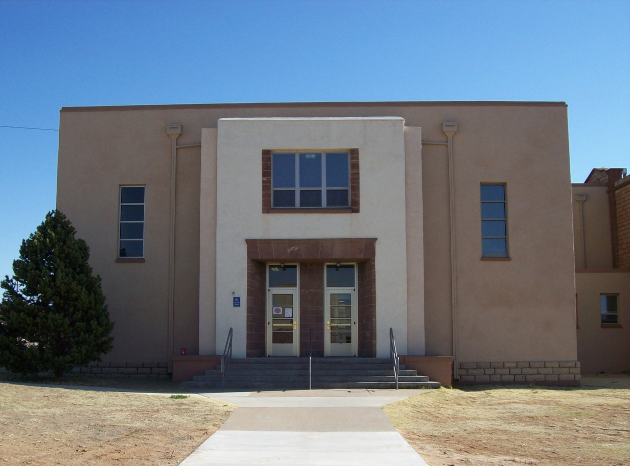 Guadalupe County, New Mexico, Courthouse (newer portion) located in Santa Rosa